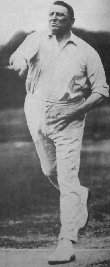 Warwick Armstrong